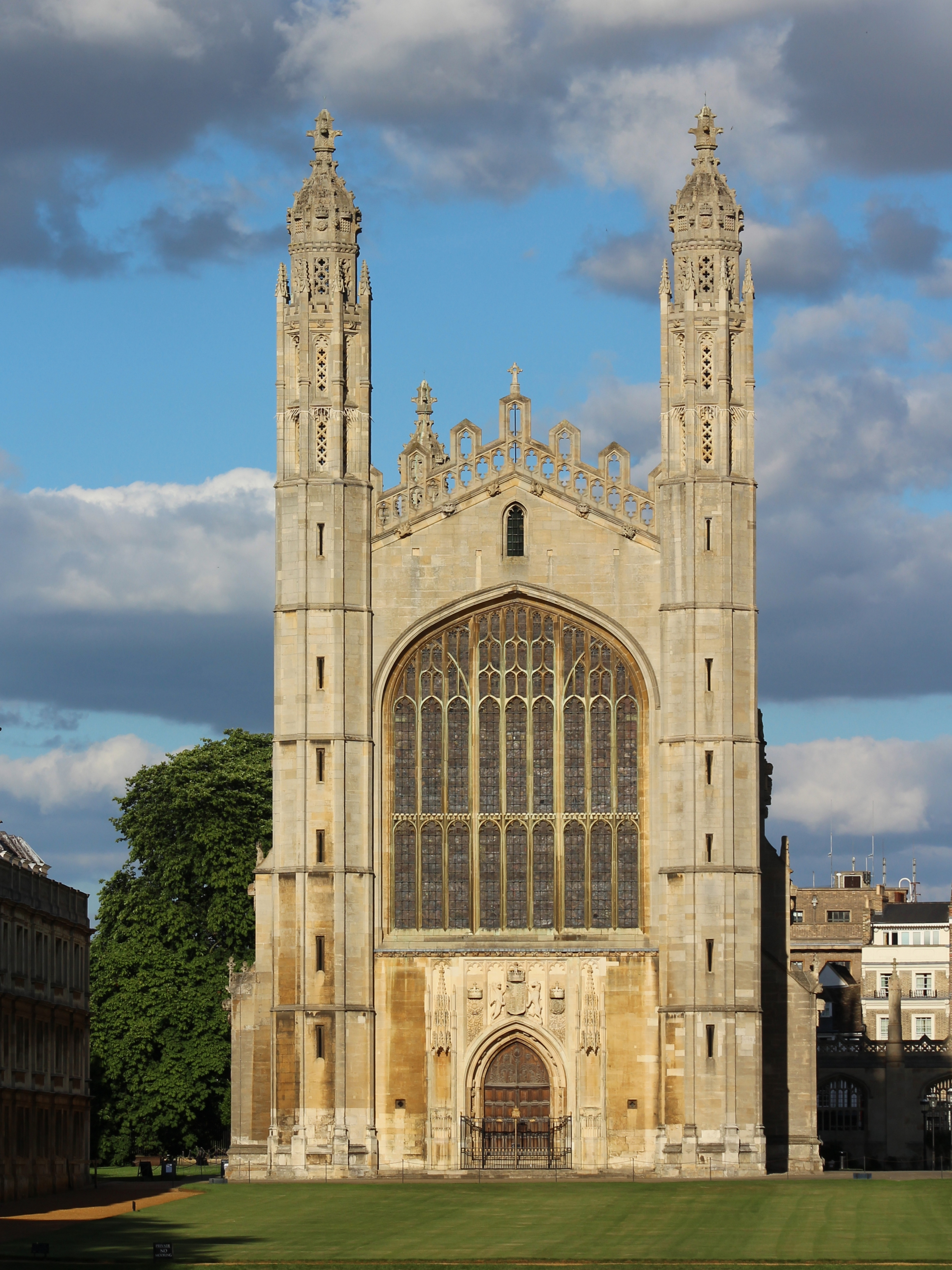 West end of Kings College Cambridge chapel from across the River Cam. The chapel was built between 1446 and 1515 and the stained glass, which are one of the finest and most complete sets of late medieval stained glass in Europe, date from between 1515 and 1531.